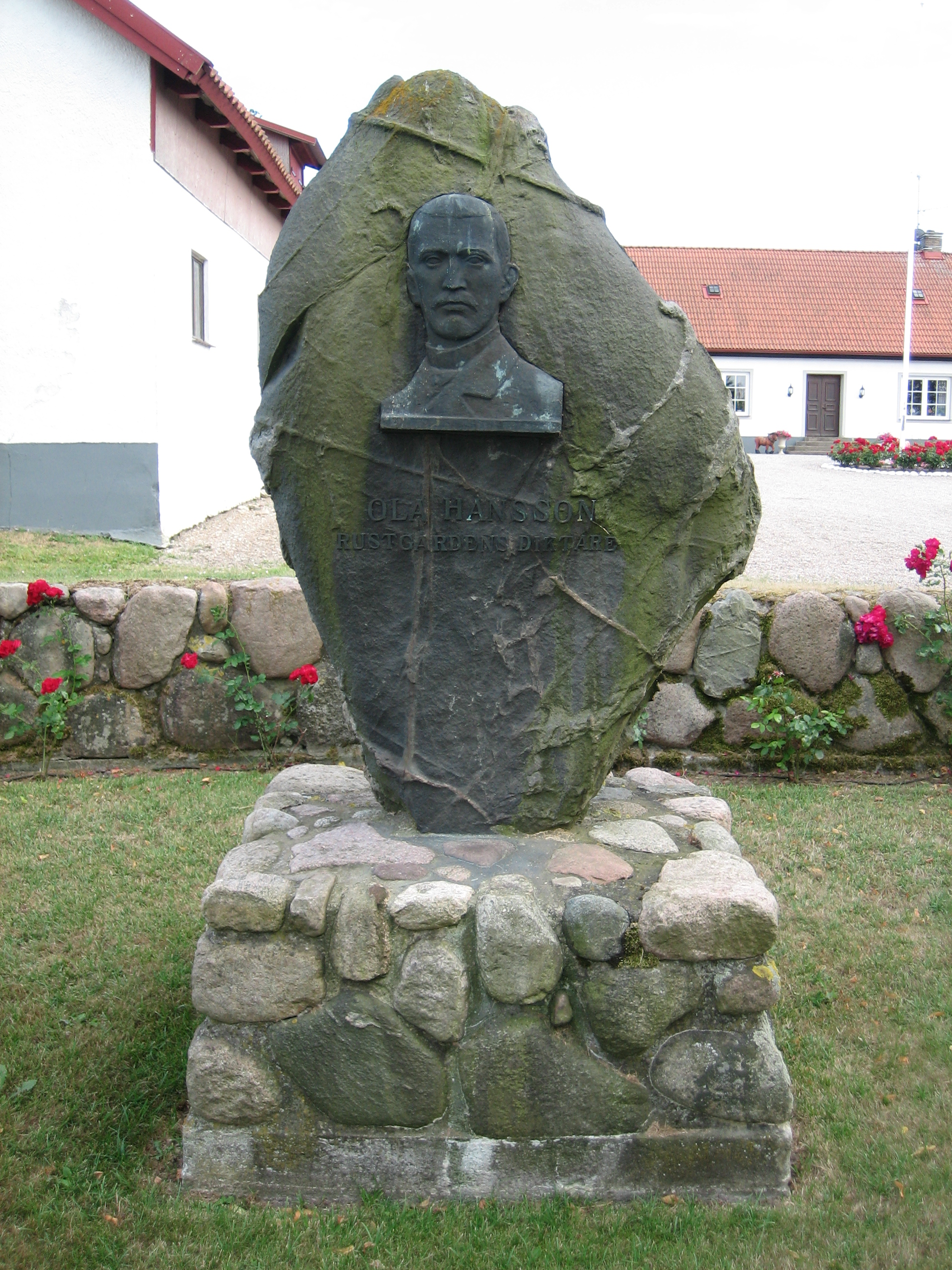 Stone with portrait in memory of Ola Hansson, swedish writer and poet (1860-1925), and his birth place. Placed at Rustgården in Hönsinge, Skåne, Sweden.